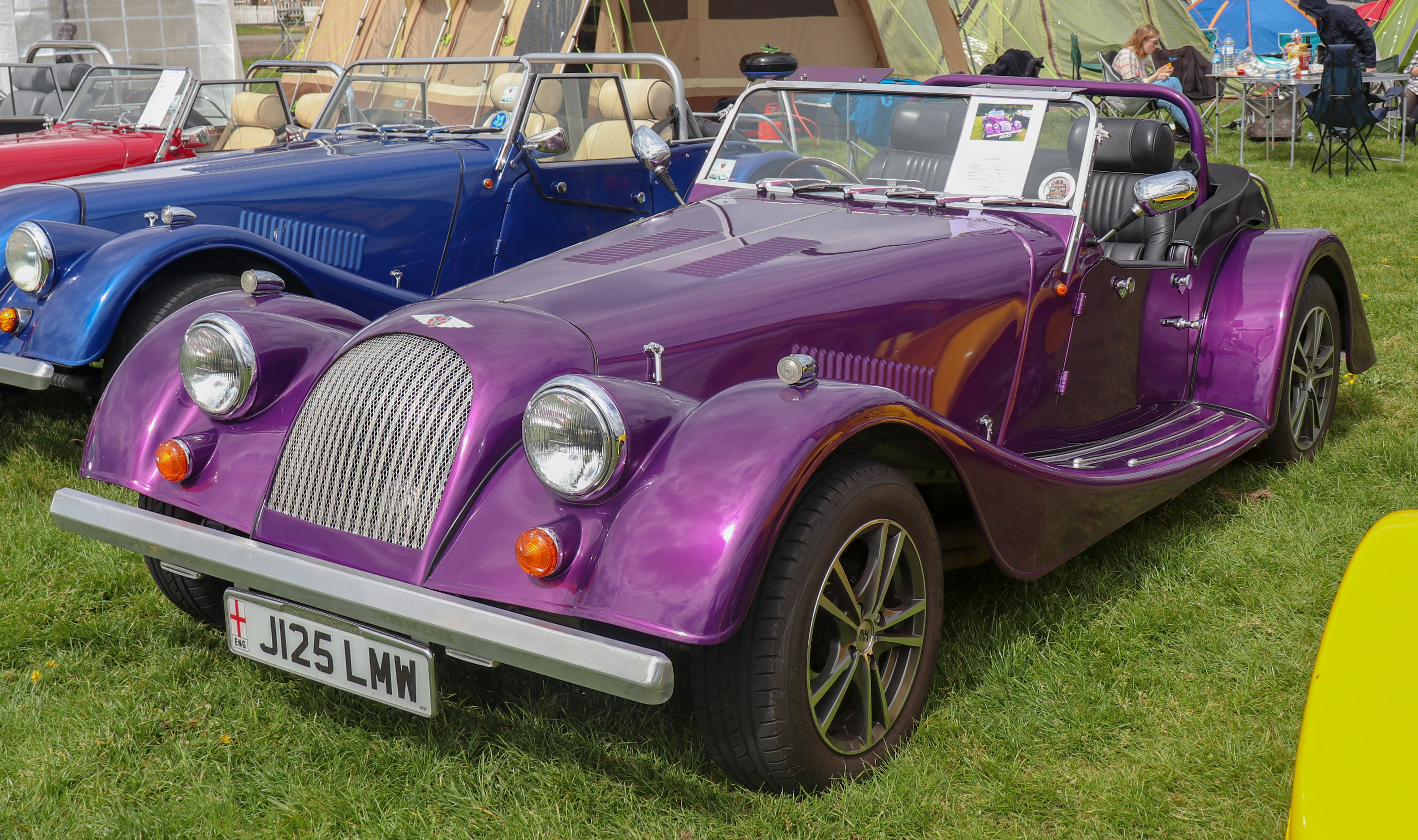 2013 LCD Hawke 2.0 Front Taken at the Stoneleigh National Kit Car Motor Show 2019